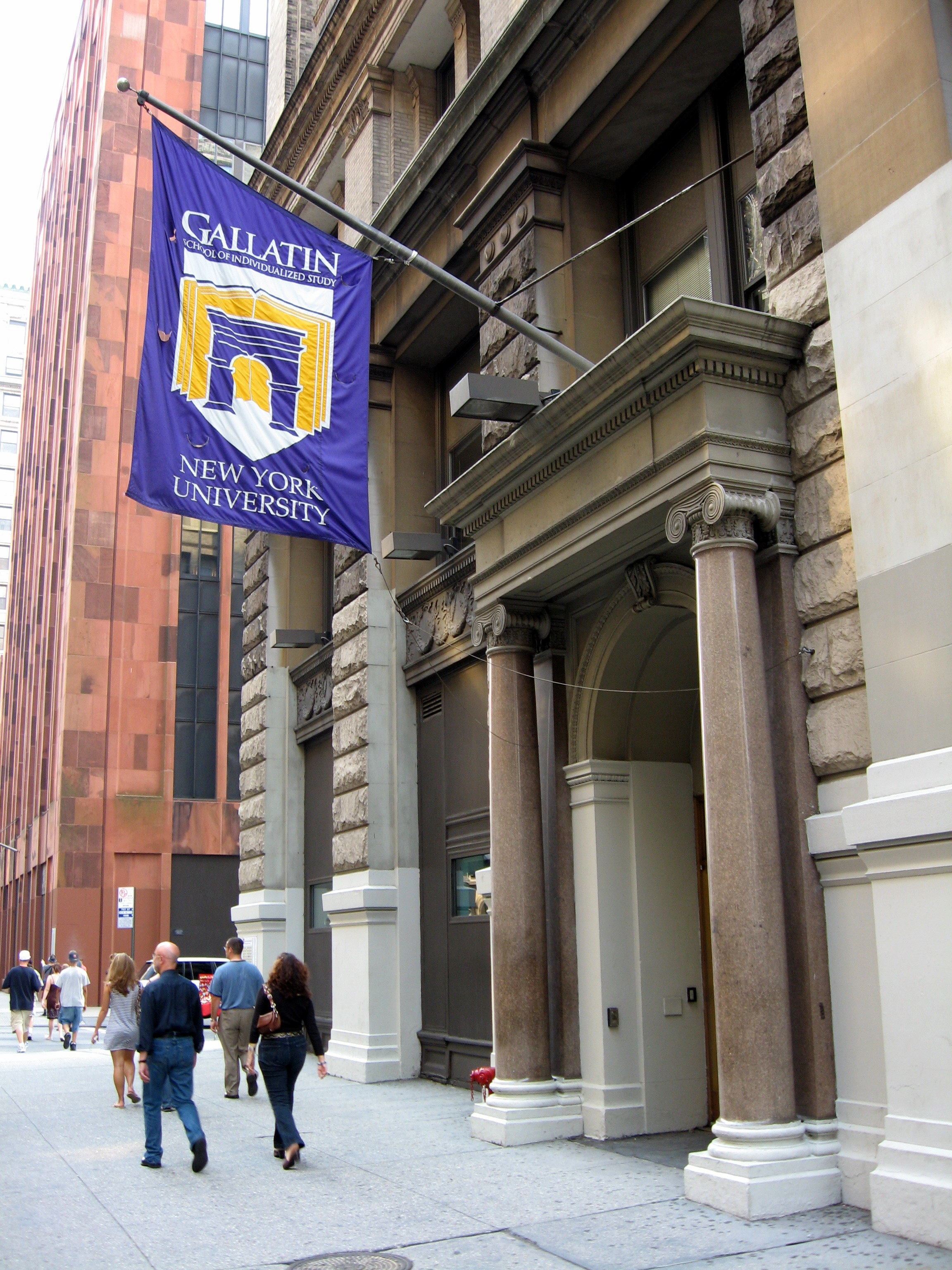 The entrance to the Gallatin School of Individualized Study at New York University.